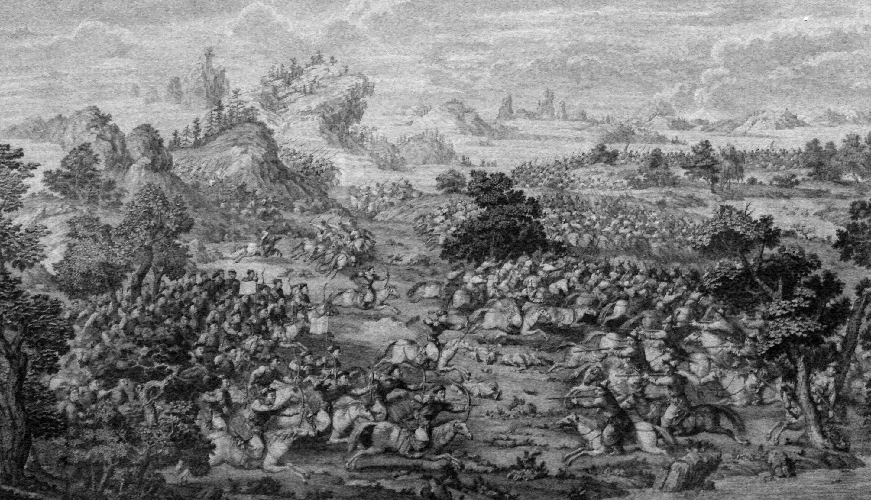 Victory_of_Khorgos_by_Jacques_Philippe_Le_Bas_1707_1783_after_Jean_Denis_Attiret_1702_1768